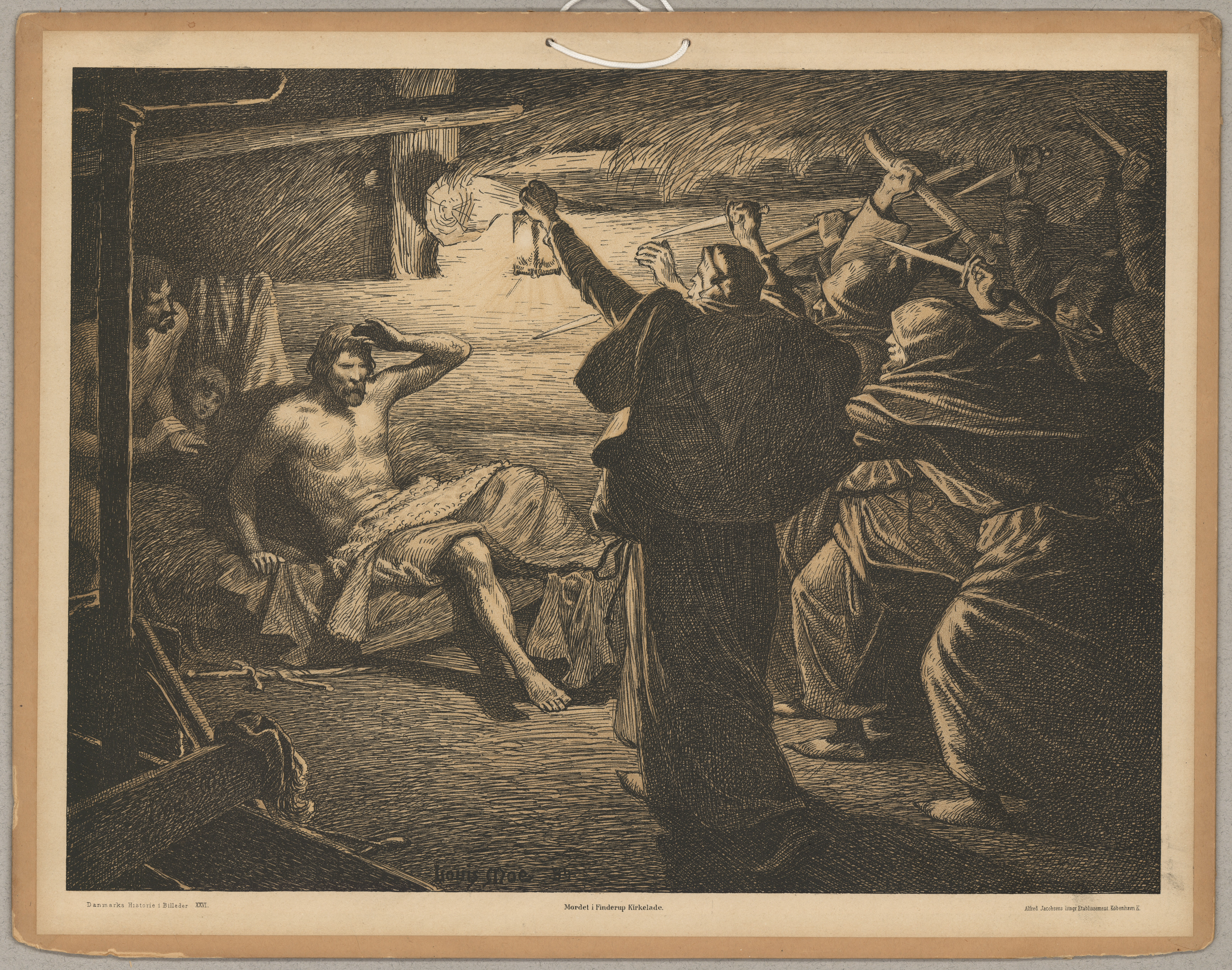 King Erik of Denmark was murdered in 1286 by a group of noblemen. Lithograh on paper, glued on cardboard. Signed lower left: L. M. Moe, 94. Text: Danmarks Historie i Billeder XXVI. Mordet i Finderup Kirkelade. Alfred Jacobsens litogr. Etablissement, København K. The collection consisted of 50 illustrations, museum no. 17.001-17.049, with No. VI and L (50) missing. Published in 1898, documented in V.E. Clausen: Folkelig grafik i Skandinavien, 1973, page 144.